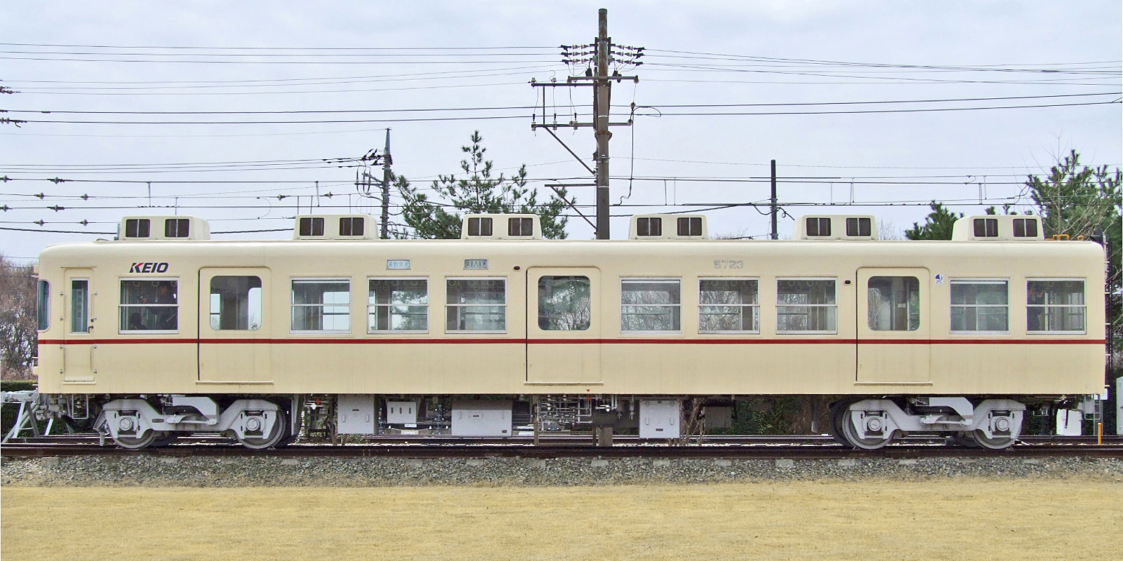 KUHA 5723,Series 5000,Keio Corporation,Japan